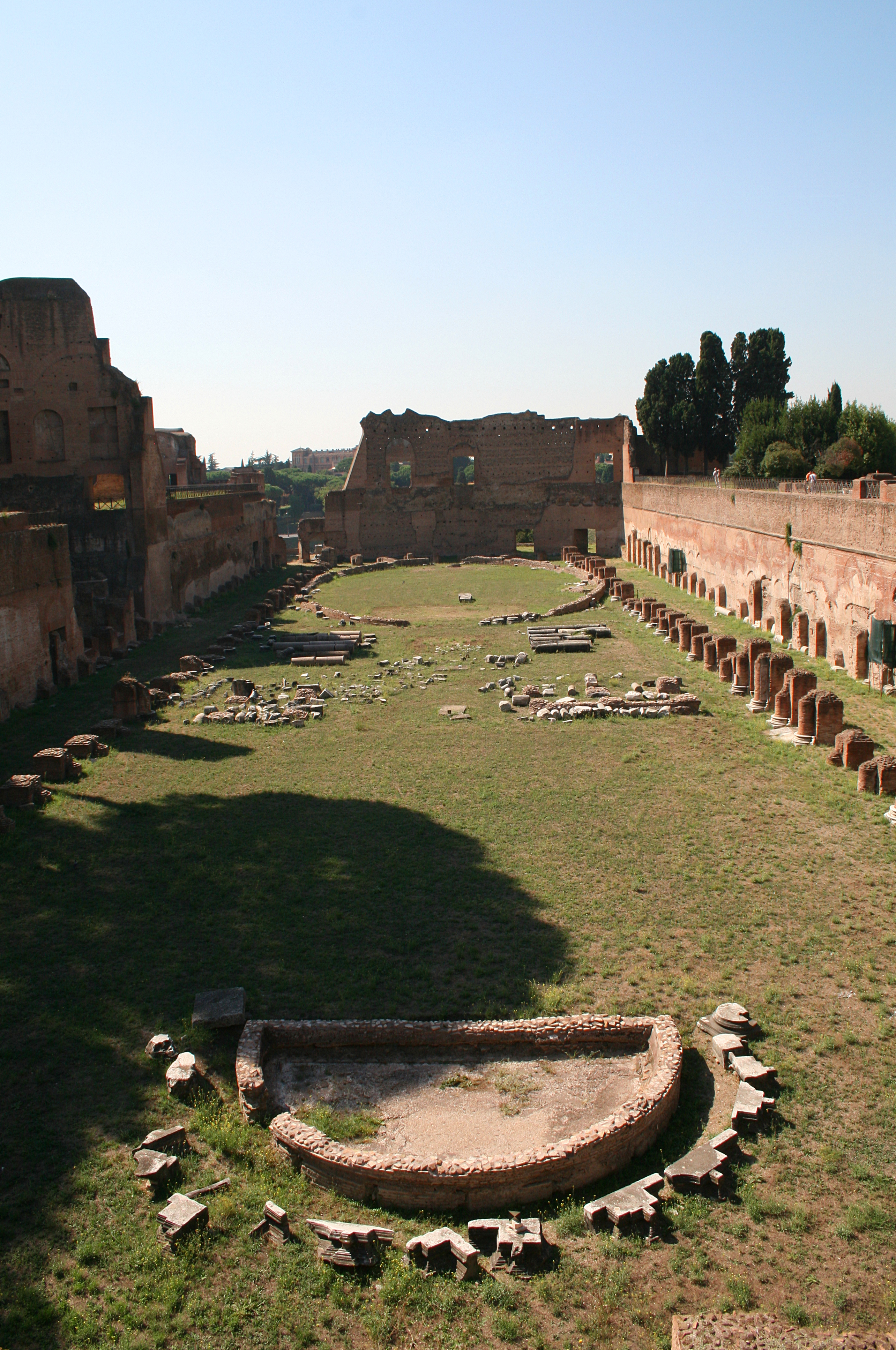 Stadium of the Domus Augustana on the Palatine Hill in Rome.